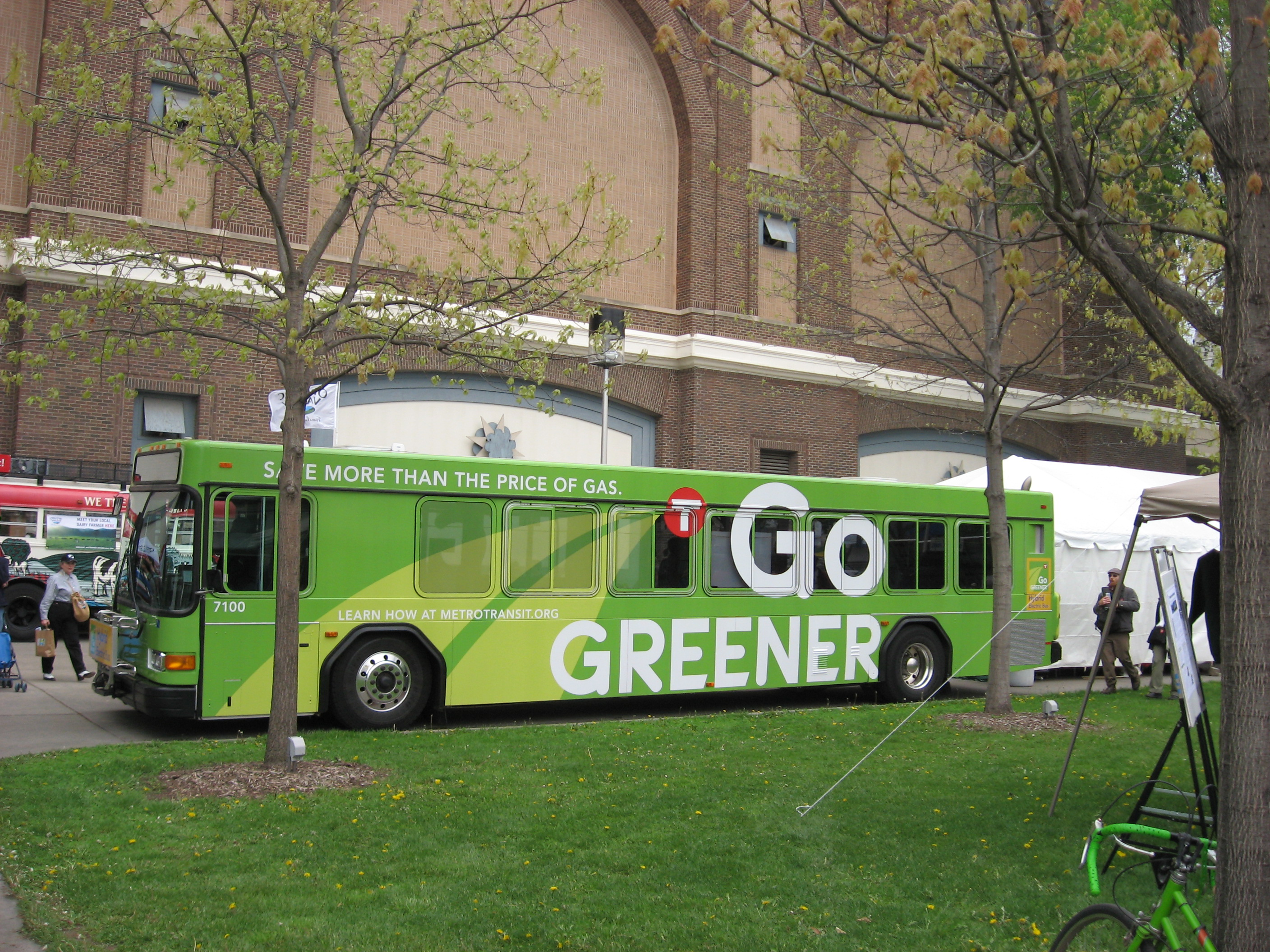 Metro Transit's Gillig low-floor hybrid (diesel-electric) bus has been in service since 2002. The transit agency is set to purchase an additional 150 units to replace its older units on the bus fleet.